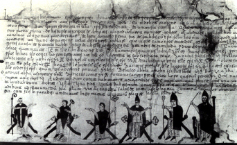 A copy of the acta of the Synod of Jaca (1063). From the Archivo Capitular, Huesca.